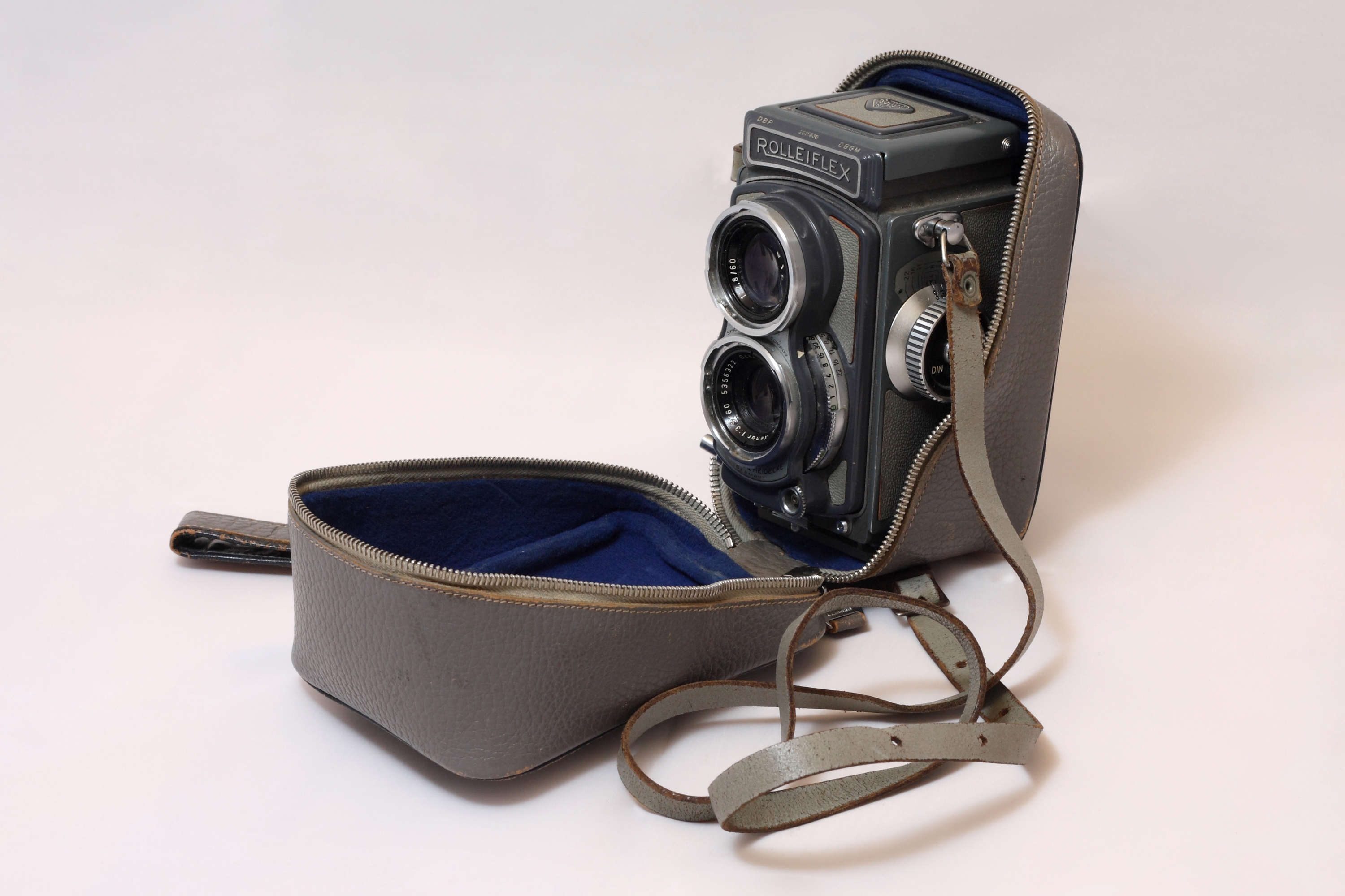 A Rolleiflex Baby 4x4 TLR camera.